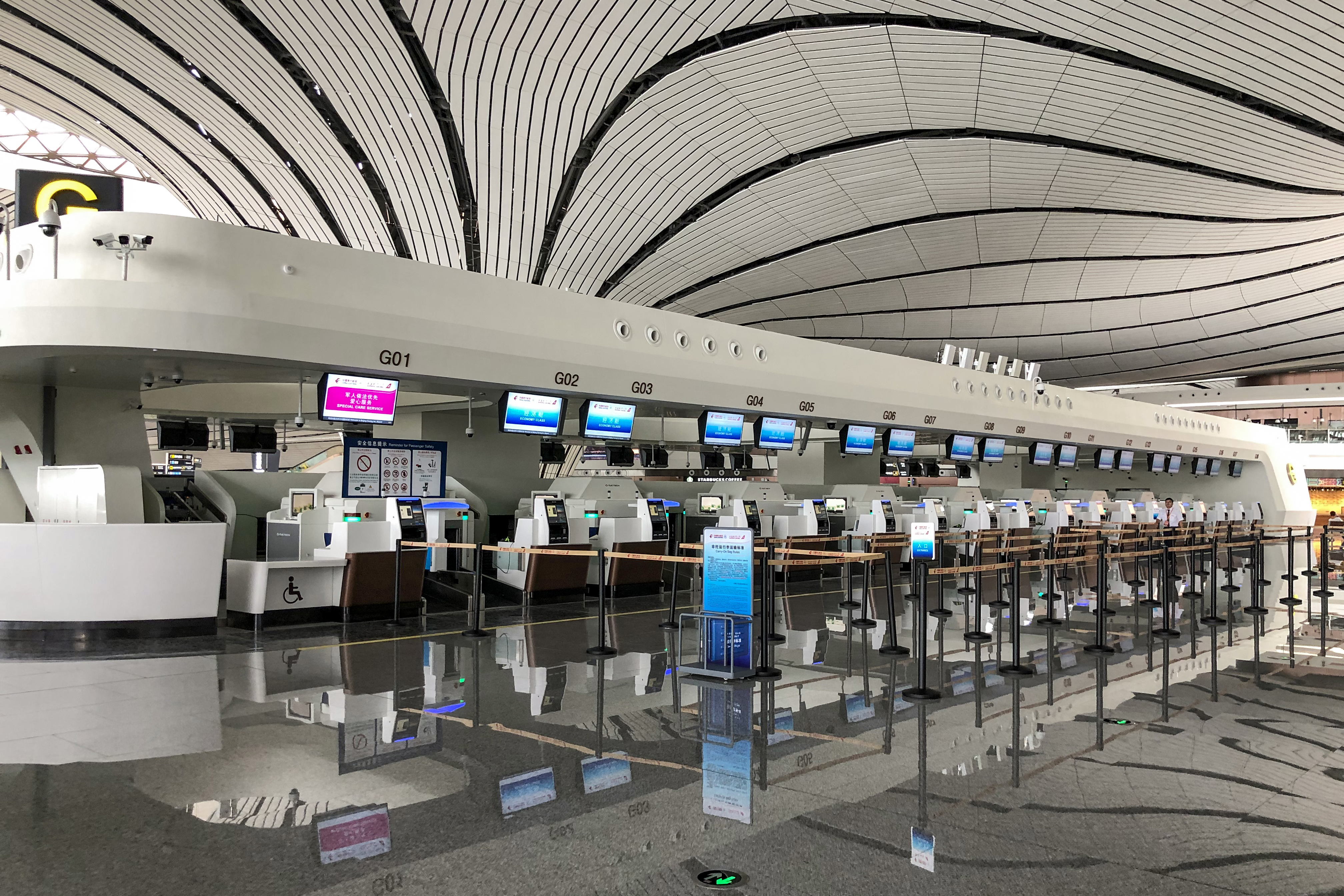 Brighter than PEK...